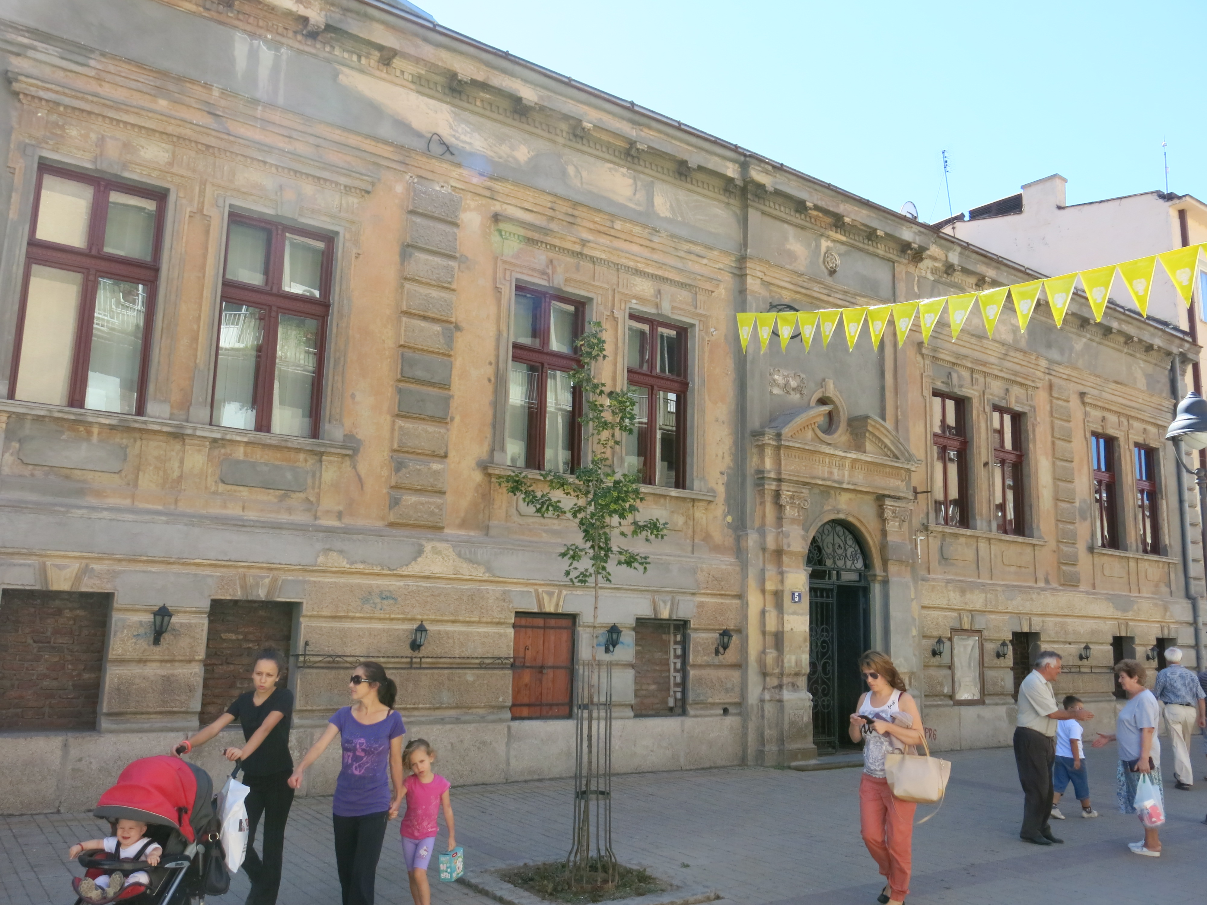 Smederevo, First Smederevo credit bank